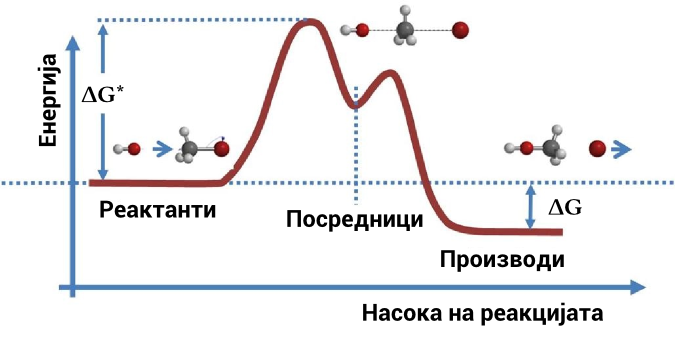 Chemical reaction path showing intermediate state, with lables in Macedonian.